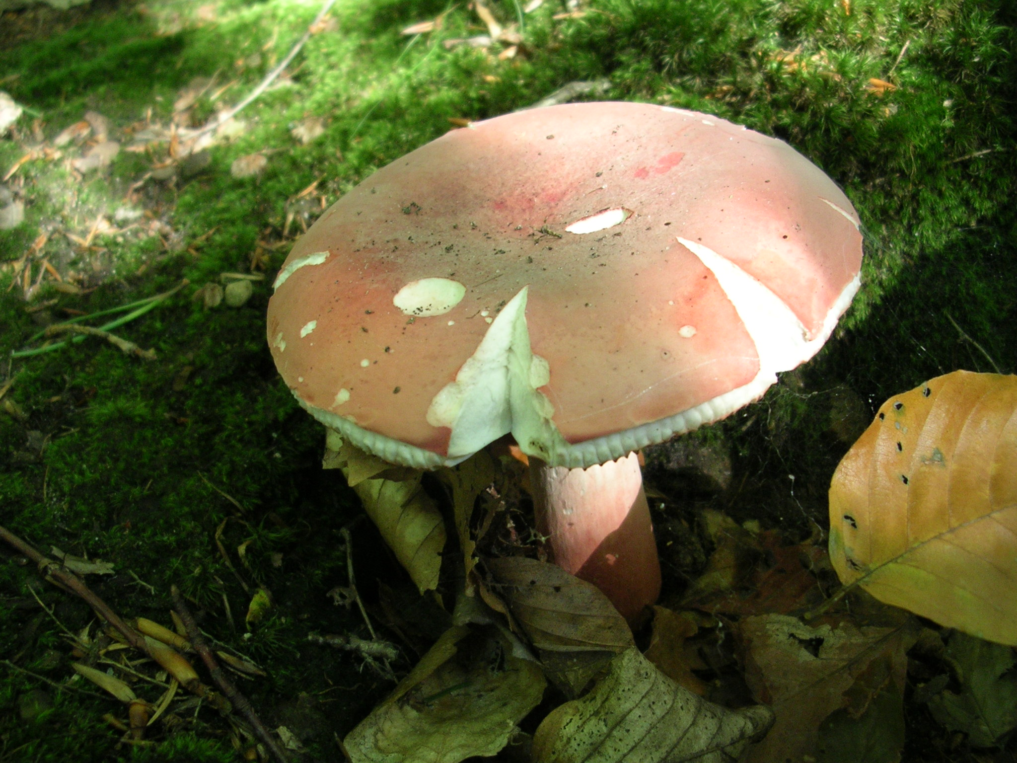 Fruity Brittlegill (Russula queletii).